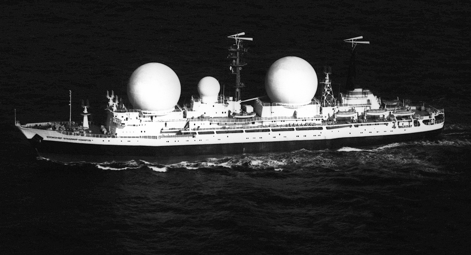 A port beam view of the Soviet civilian space associated ship KOSMONAUT VLADIMIR KOMAROV, a converted Poltava class dry cargo ship.